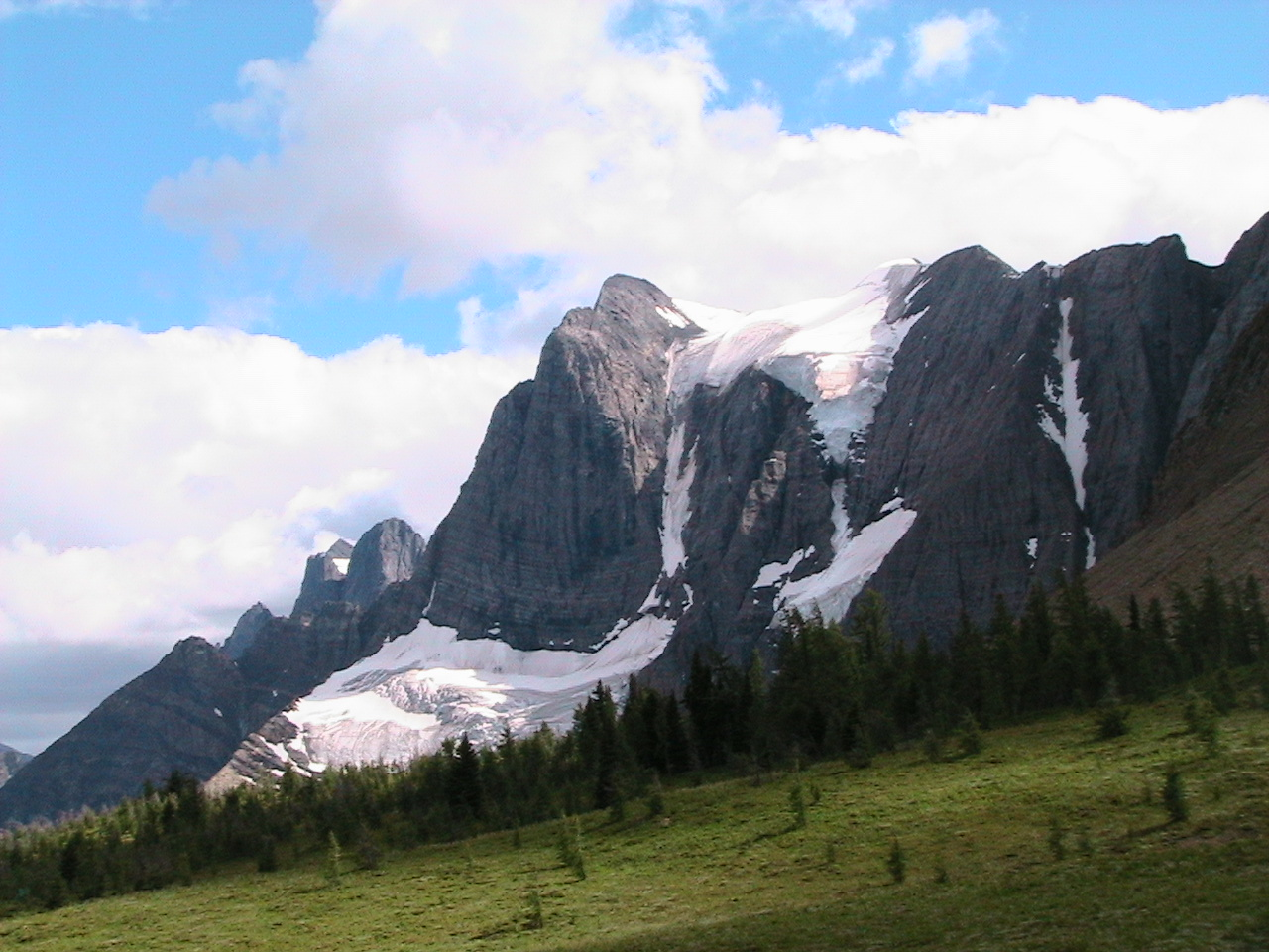 Tumbling Peak fron Rockwall Trail, Kootenay National Park BC Canada